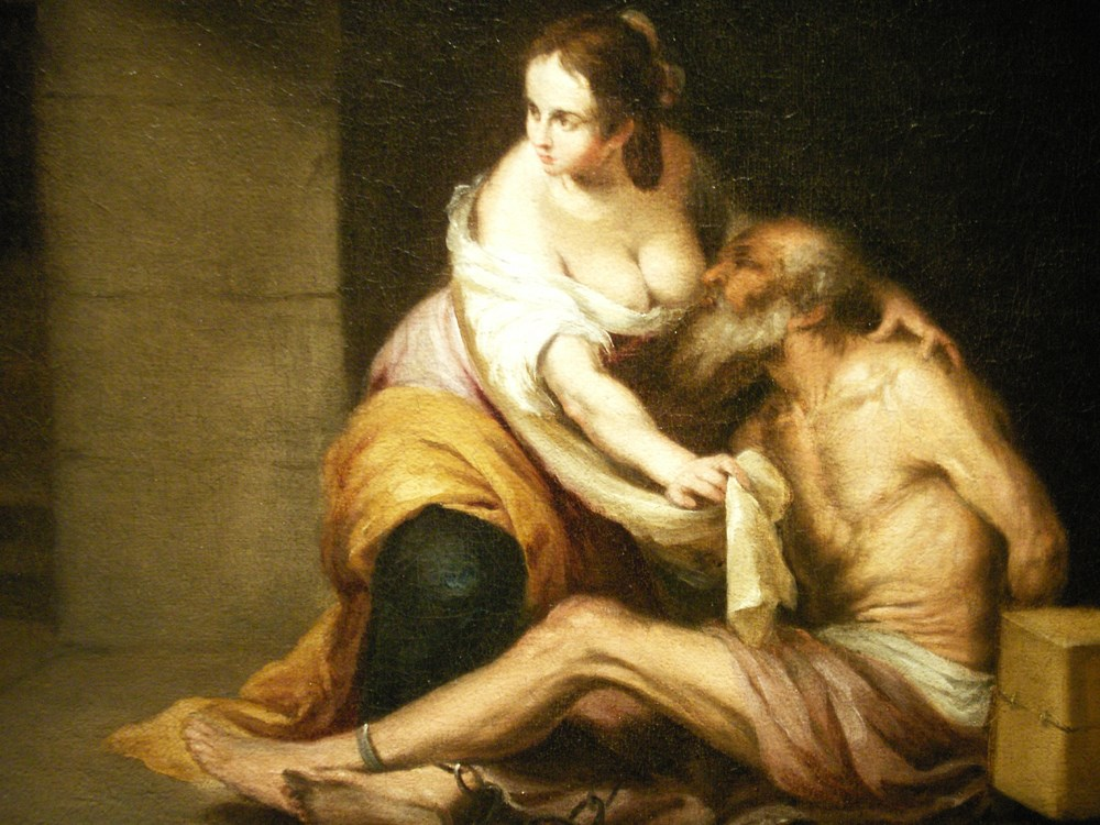 Caritas Romana, oil sketch by Murillo for a painting of the same title that was destroyed in a fire, at the Philadelphia Academy of Fine Arts, in 1845. The painting belonged to the Manuel Godoy collection. After the Napoleonic invasion of Spain, the engraver who had it in order to make an engraving, Tomás López Enguídanos, fled to Valencia taking the painting with him, meaning to save it from the clutches of Joseph Bonaparte, although in the end he had to sell it for economic reasons. It was bought and brought it to the United States, and it was already at the Philadelphia Academy of Fine Arts before 1814. There, it get destroyed in a fire in 1845. Apparently, it was the first painting of Murillo to arrive in the United States. Dimensions of the sketch: 12 ¼ x 16 inches / 31.3 x 40.8 cm